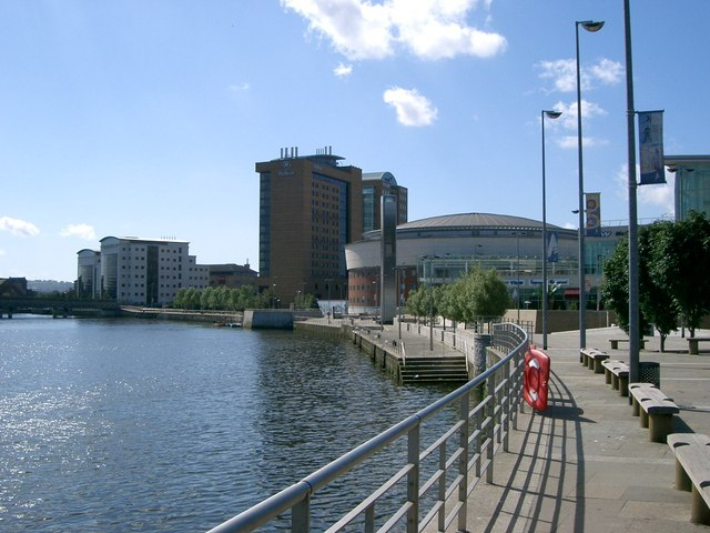 The Lagan. Where it flows past The Waterfront Concert Hall and The Hilton Hotel.